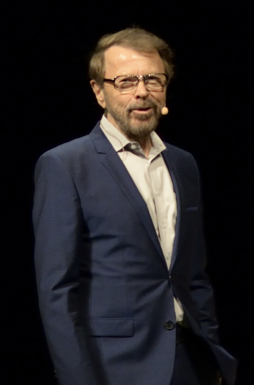 Foto: Magnus Norden